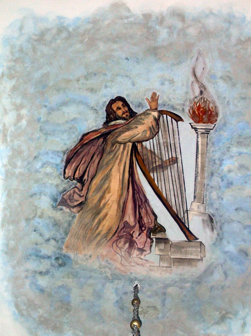 Freska